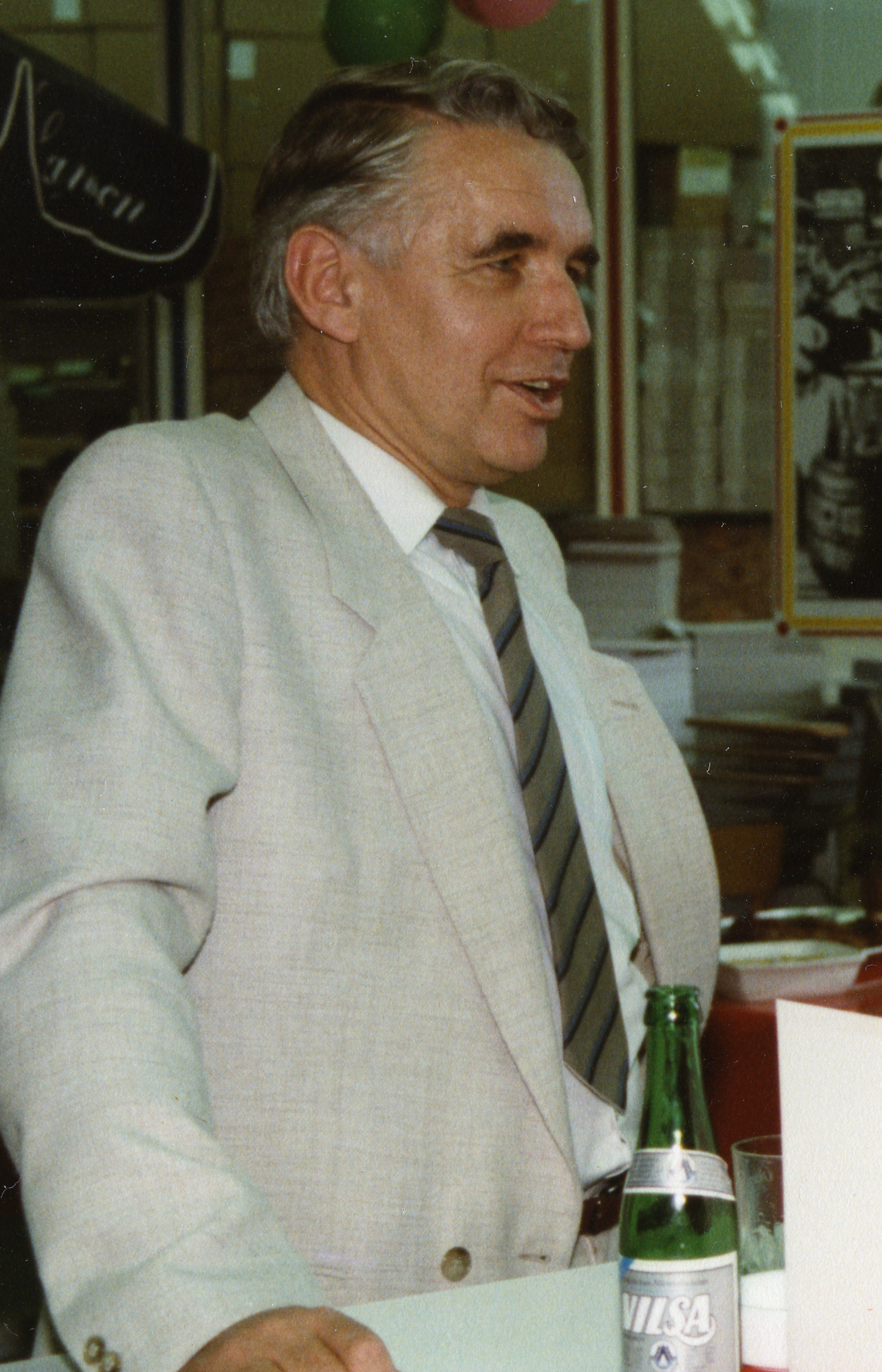 Rolf Merker